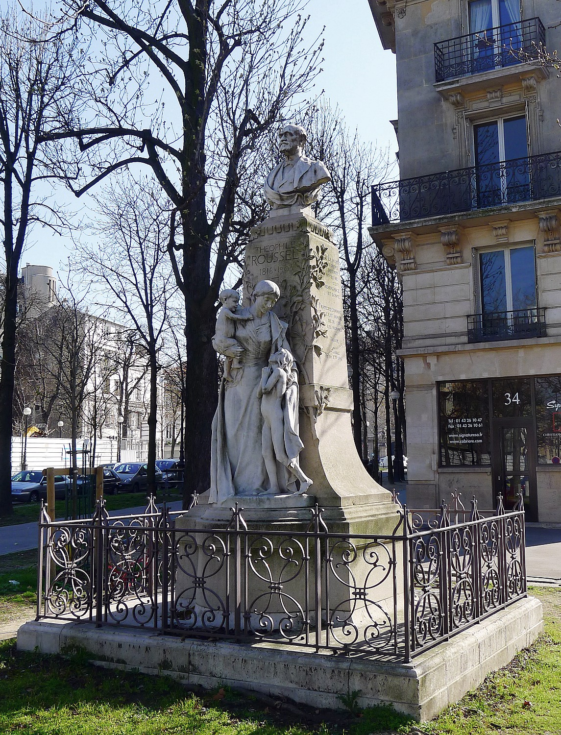 Bust of Théophile Roussel - Paris